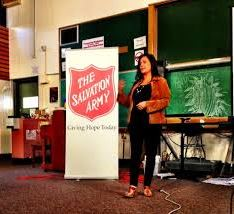 Natasha Falle speaking in conjunction with The Salvation Army